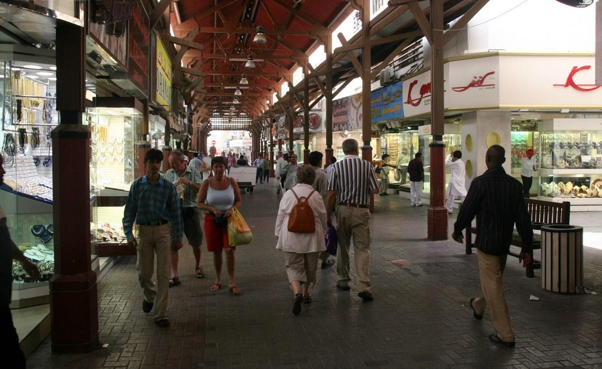 This is a photo showing the Dubai Gold Souk in Deira, Dubai, United Arab Emirates on 31 May 2007.